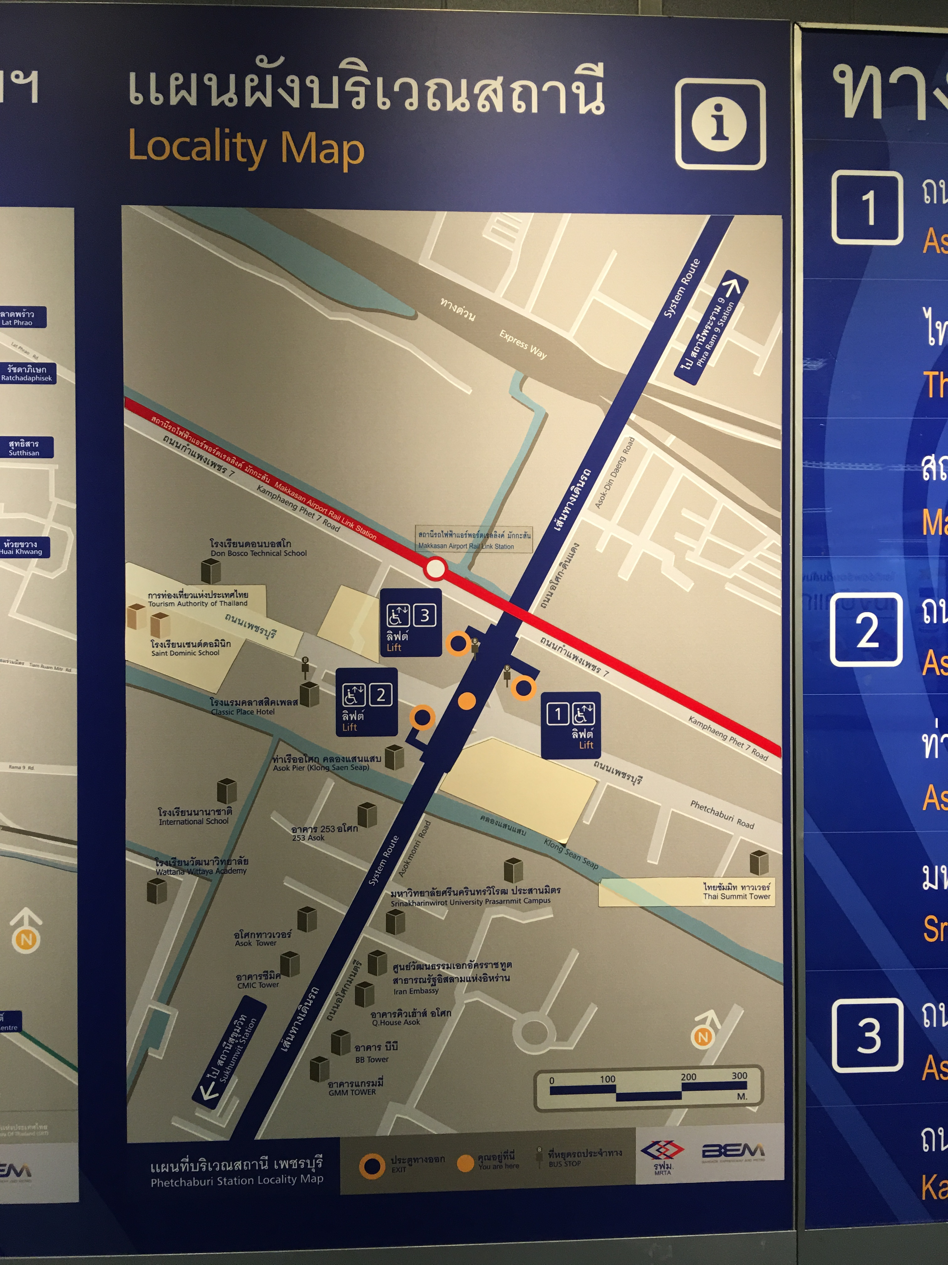 The locality map of Phetchaburi MRT Station